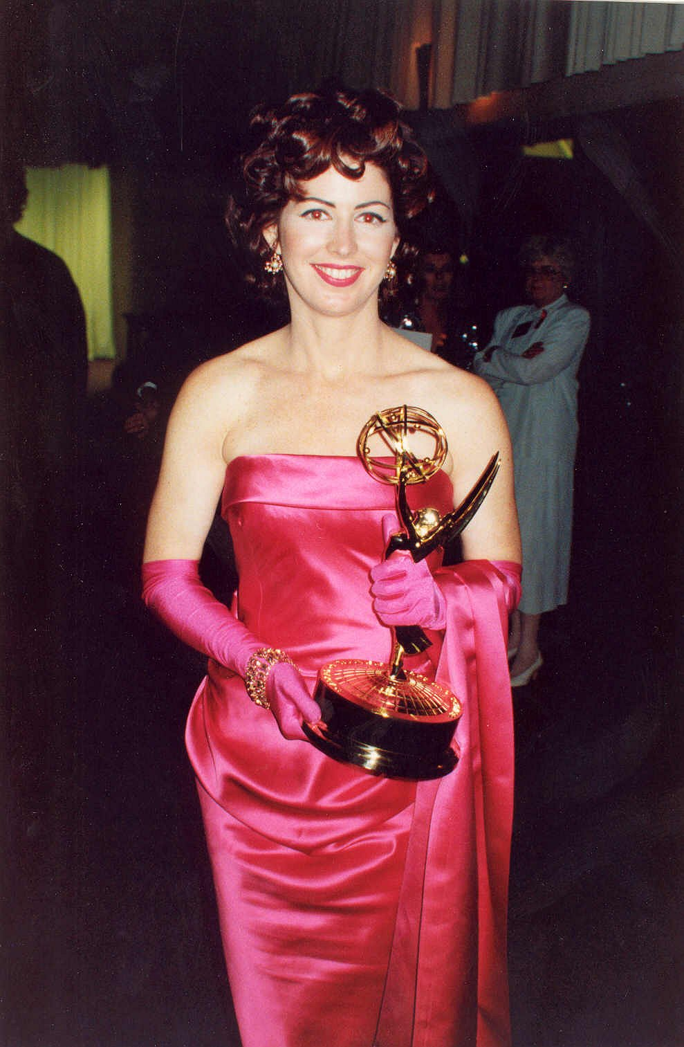 Dana Delany (star Desperate Hausewiwes) at Emmy Awards 1992